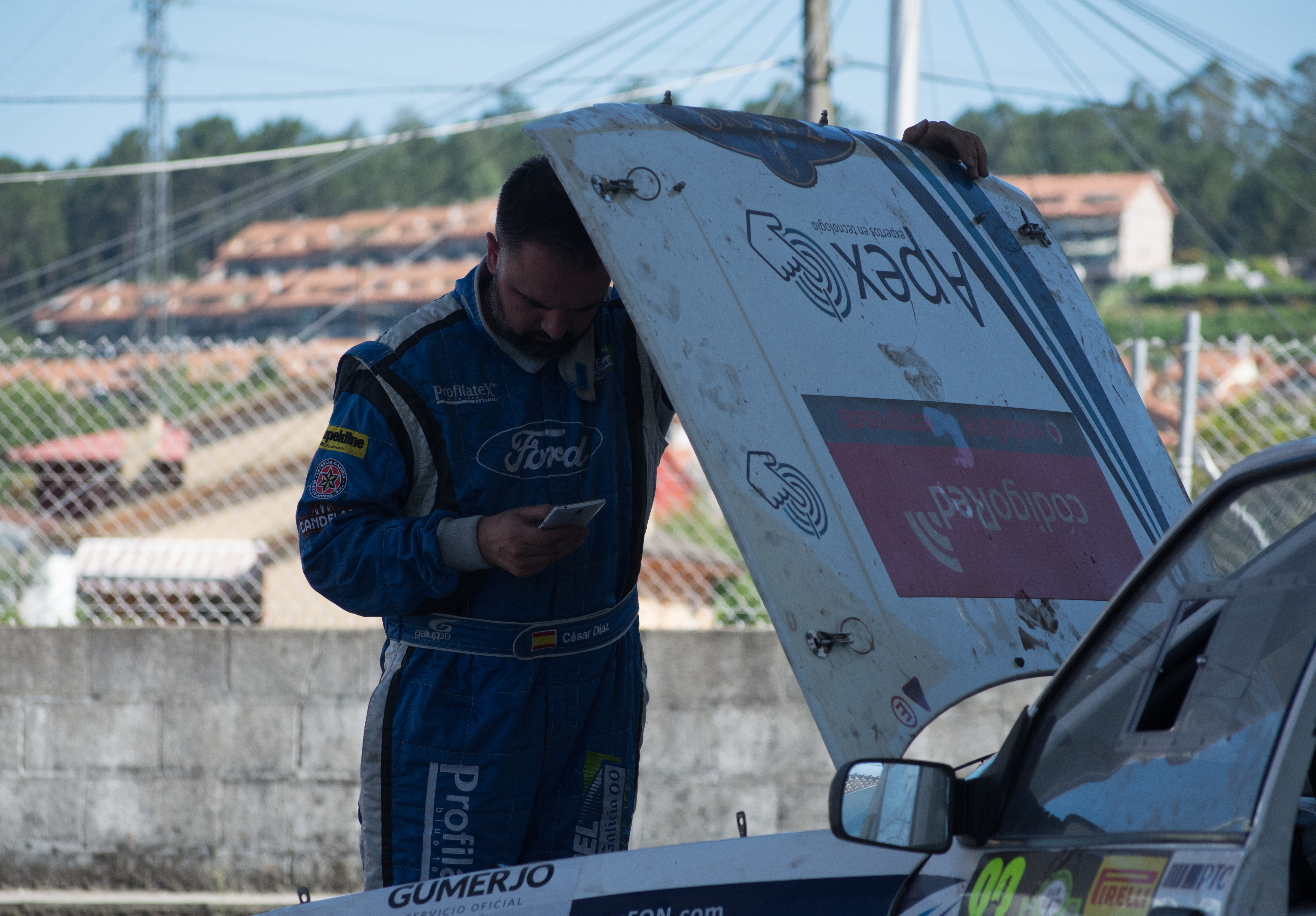 Rally Sur do Condado 2016